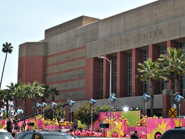 The 2013 Kids' Choice Awards at Galen Center